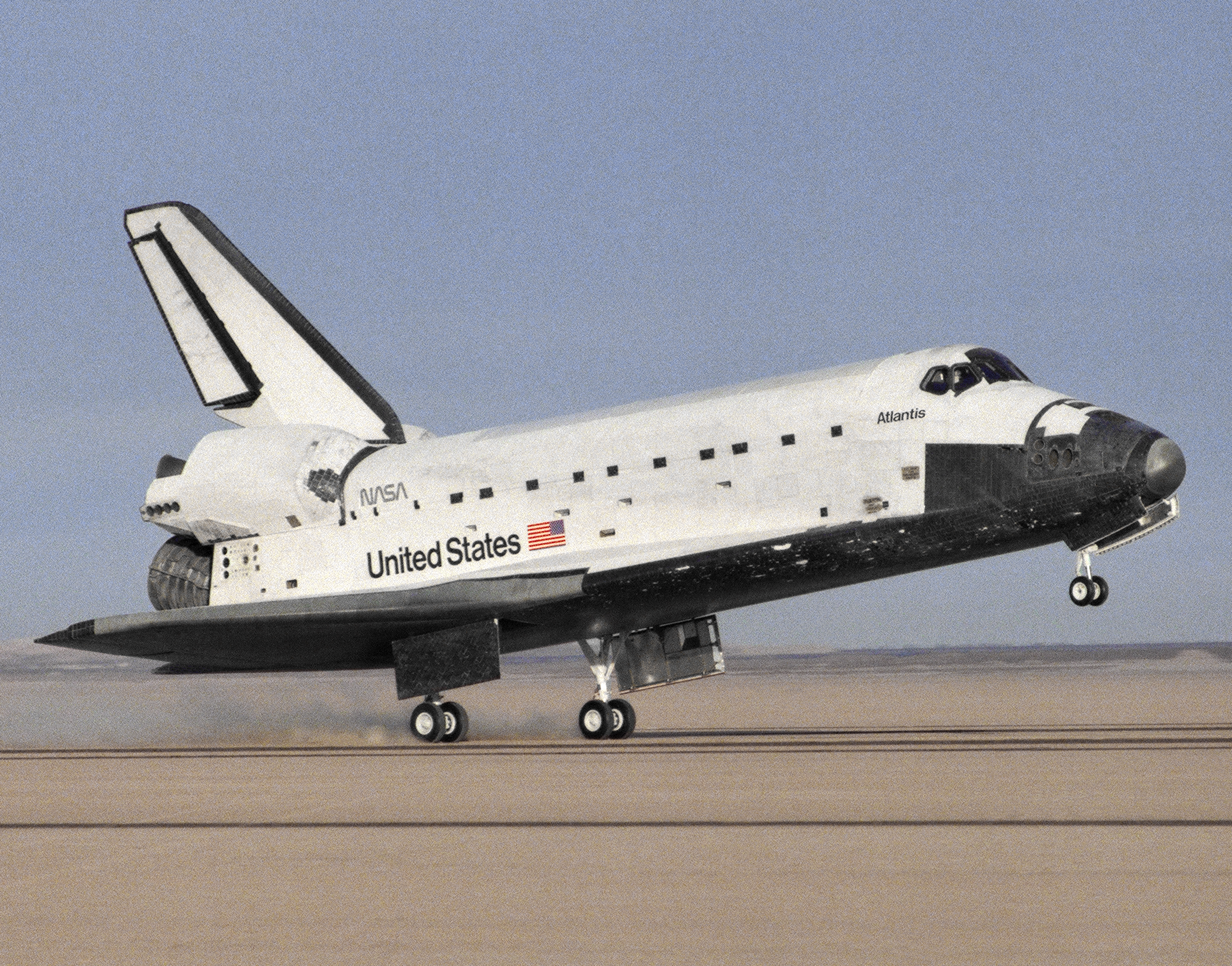 Atlantis touches down at Edwards Air Force Base. Severe tile damage is visible along the starboard side.